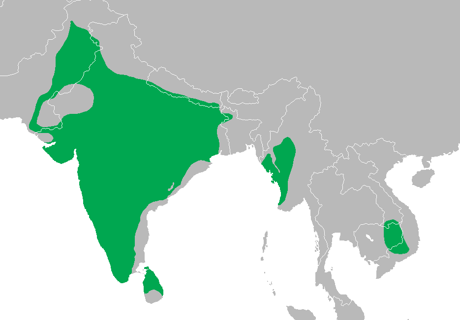 Yellow-crowned Woodpecker (Dendrocopos mahrattensis) distribution map